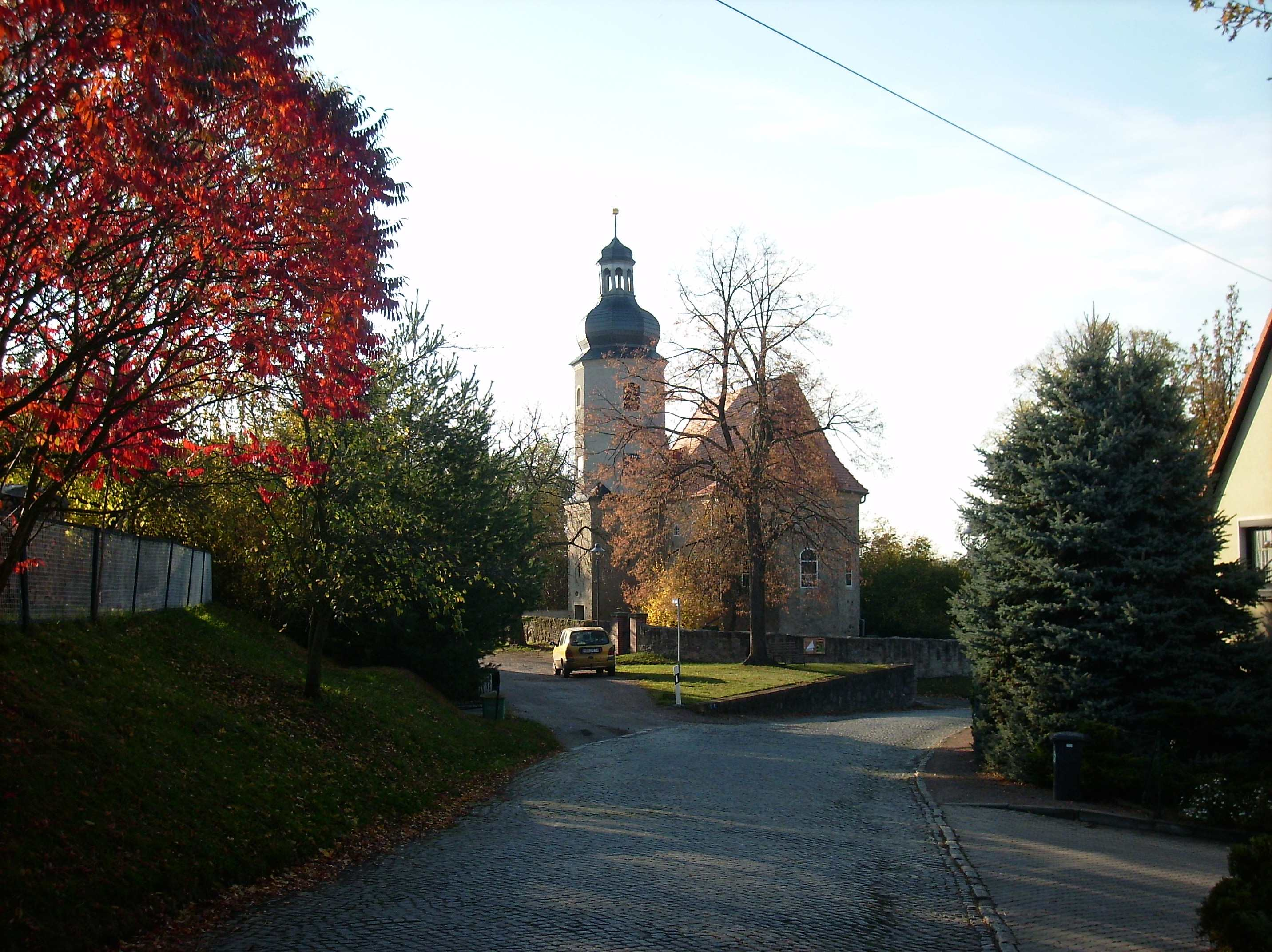 Oberlödla church (Lödla, district of Altenburger Land, Thuringia)